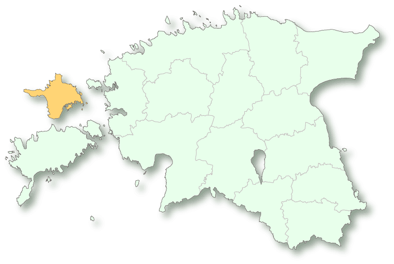 Locator map of Hiiu County, Estonia. County borders as of 2005